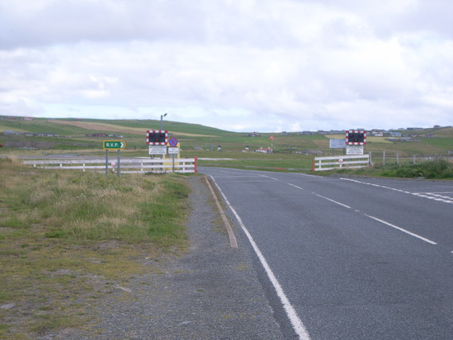 A road across the runway at Sumburgh